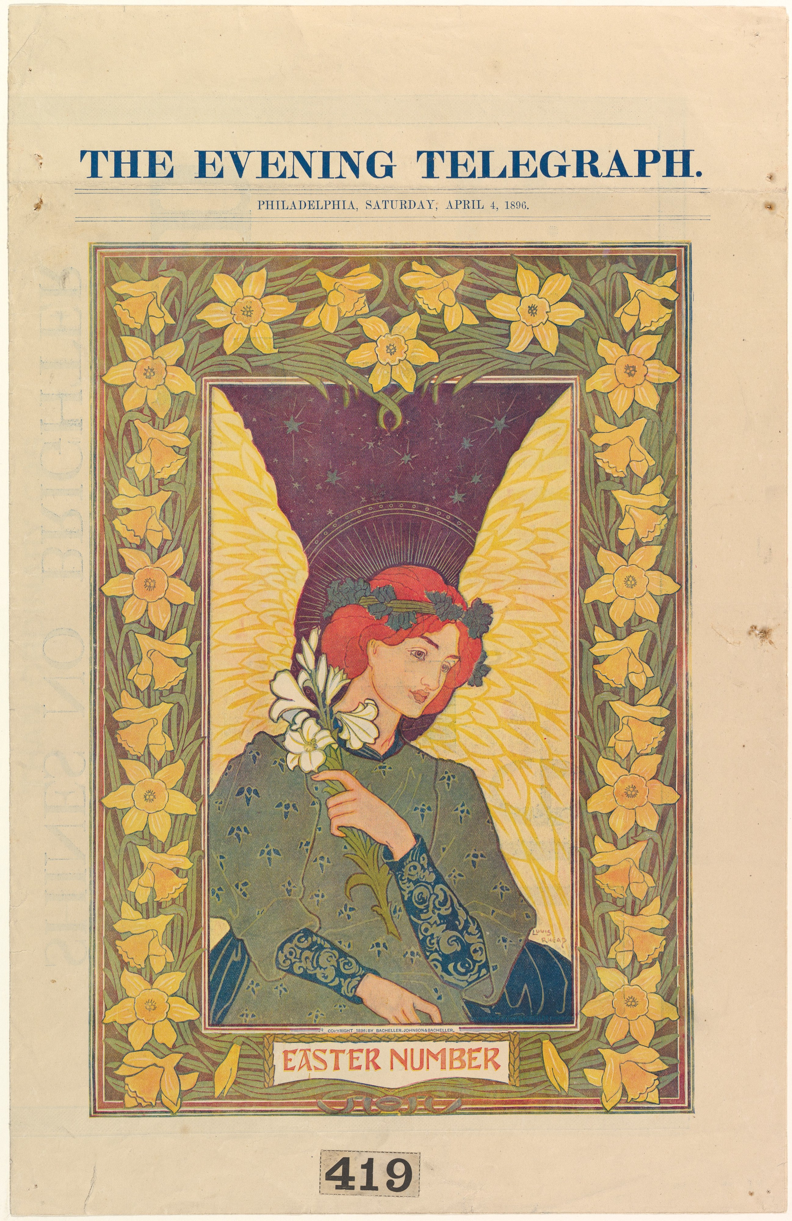 Print; Prints